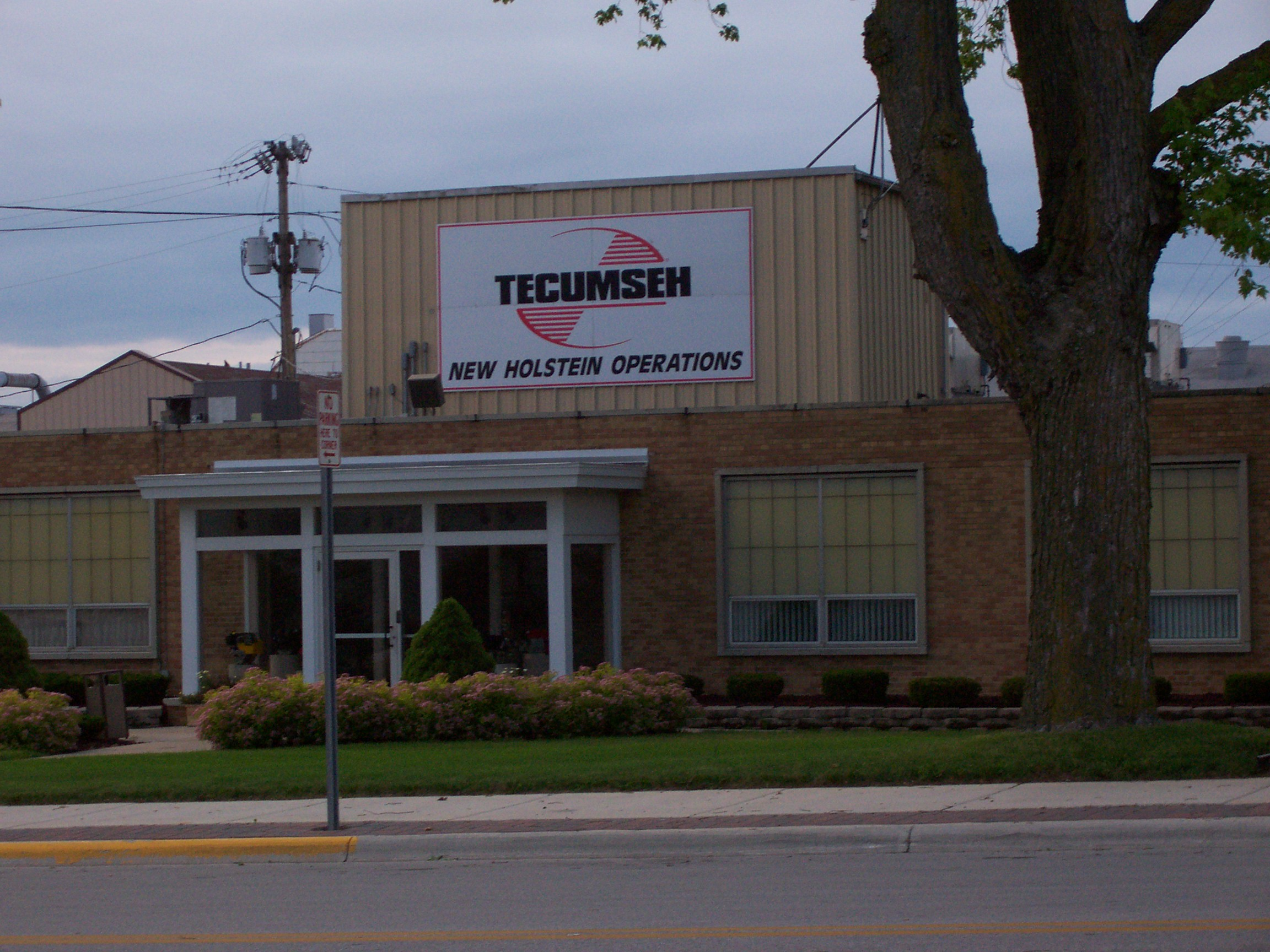 Image of Tecumseh Products plant in New Holstein, Wisconsin, taken by myself on June 25, 2006